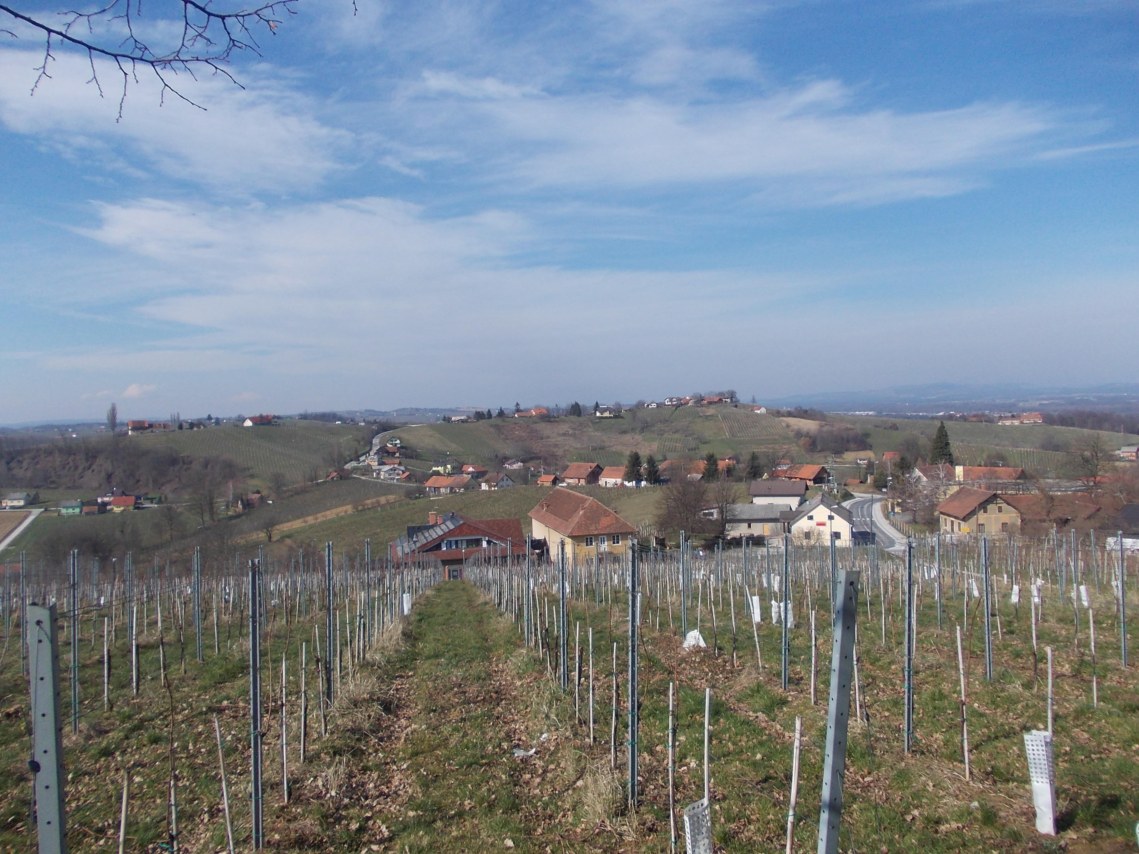 The View from Mary Magdalene Church, Kapelski Vrh, to Radenski Vrh